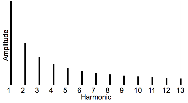 Ideal harmonic spectra. Frequency = x harmonic/1st harmonic (2nd harmonic = 2/1). Amplitude = 1st harmonic/x harmonic (2nd harmonic's amplitude = 1/2 the first harmonic's amplitude.)